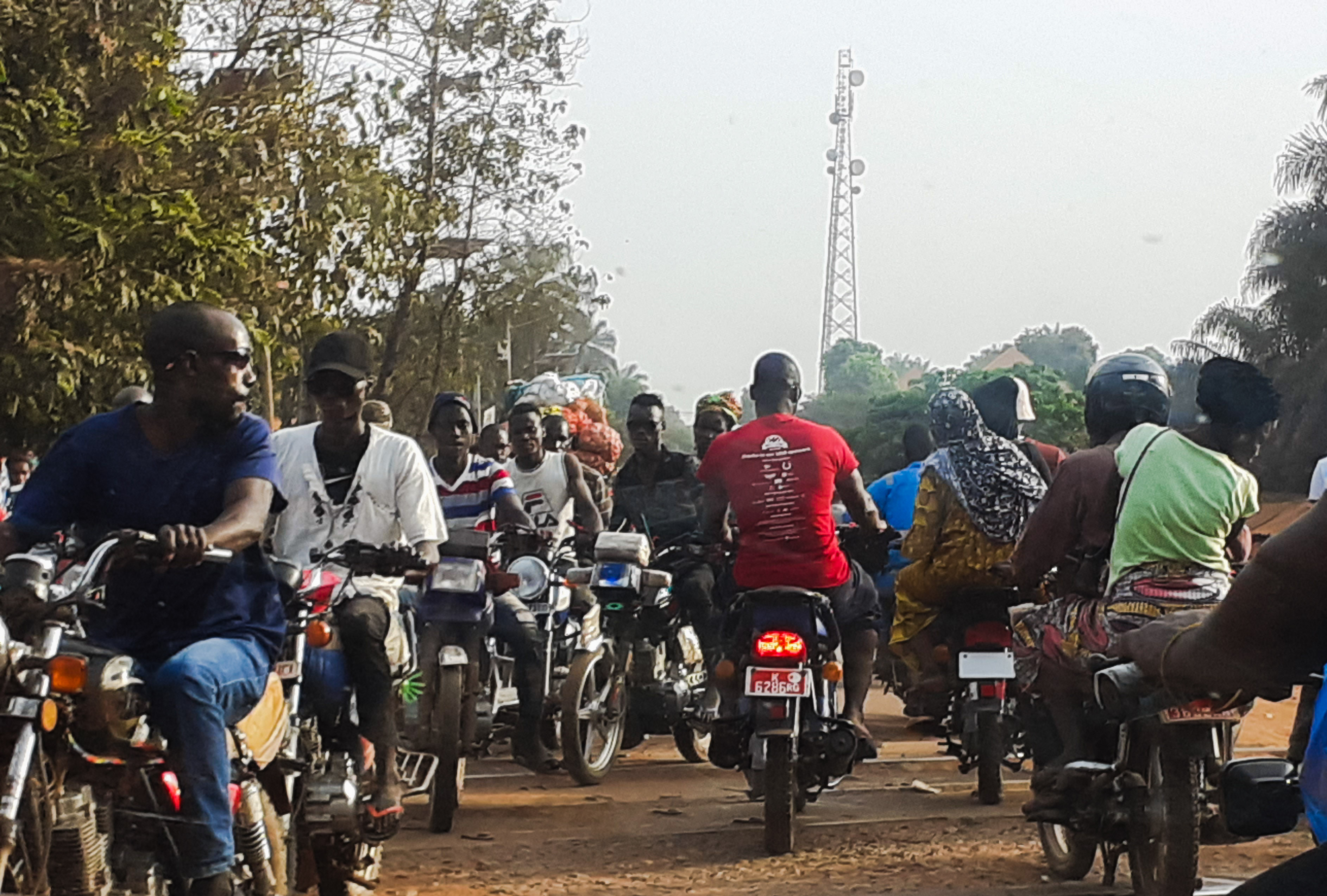 This is an image with the theme "Africa on the Move or Transport" from: Guinea